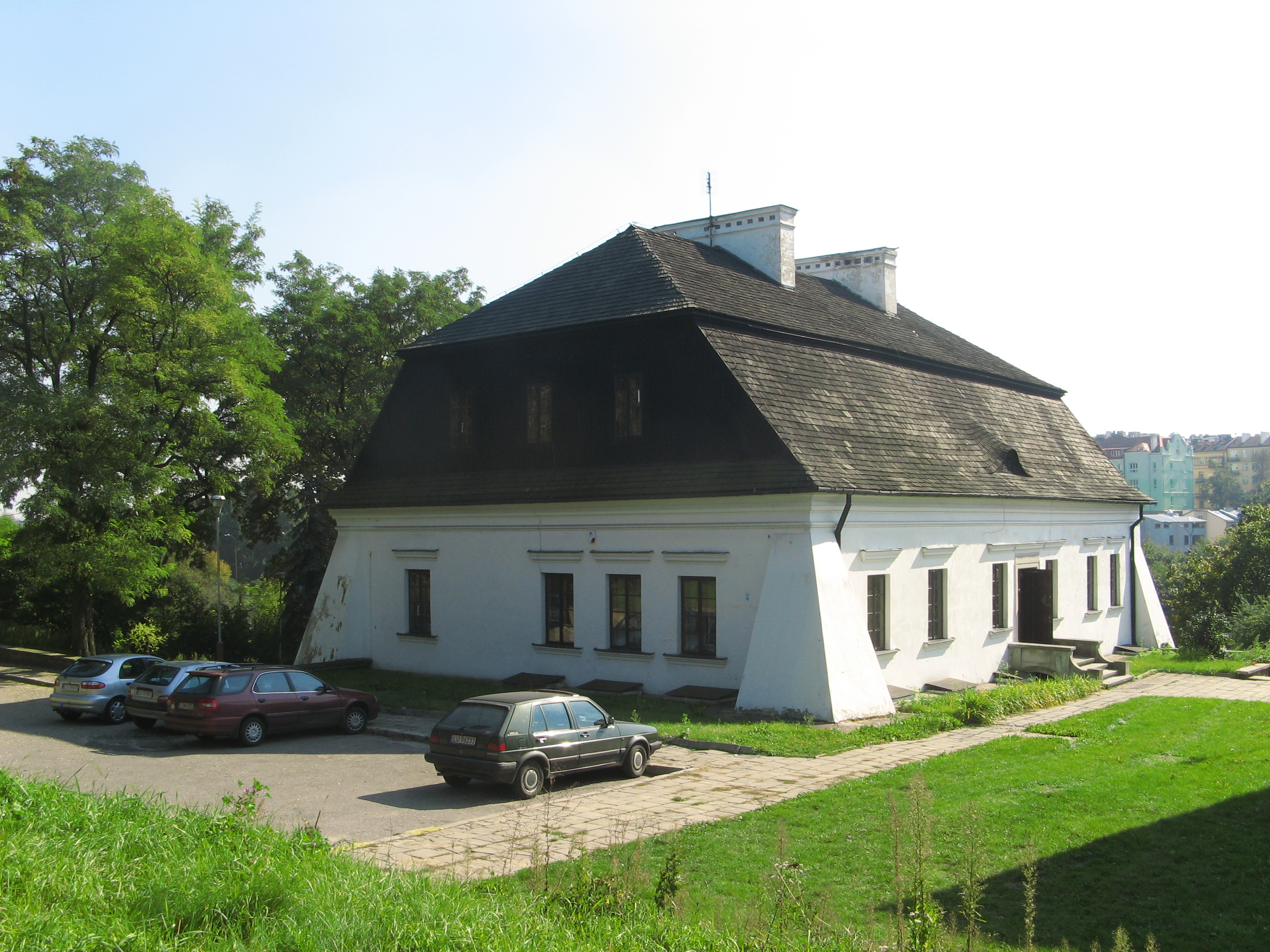 The Gorajski Manor House in Lublin